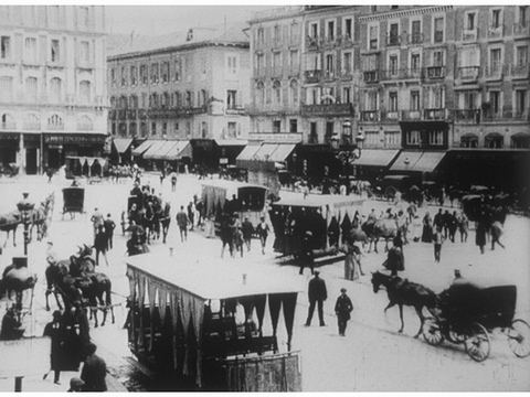 A still from a short movie shot by Alexandre Promio, showing the activity on Puerta del Sol, in Madrid. Filmed between June 12-17 1896. The film had a public screening in Mâcon, France, on July 2nd 1896, under the title "Puerta del Sol (Madrid)" (reported in Le Journal de Saône et Loire, July 2nd 1896).